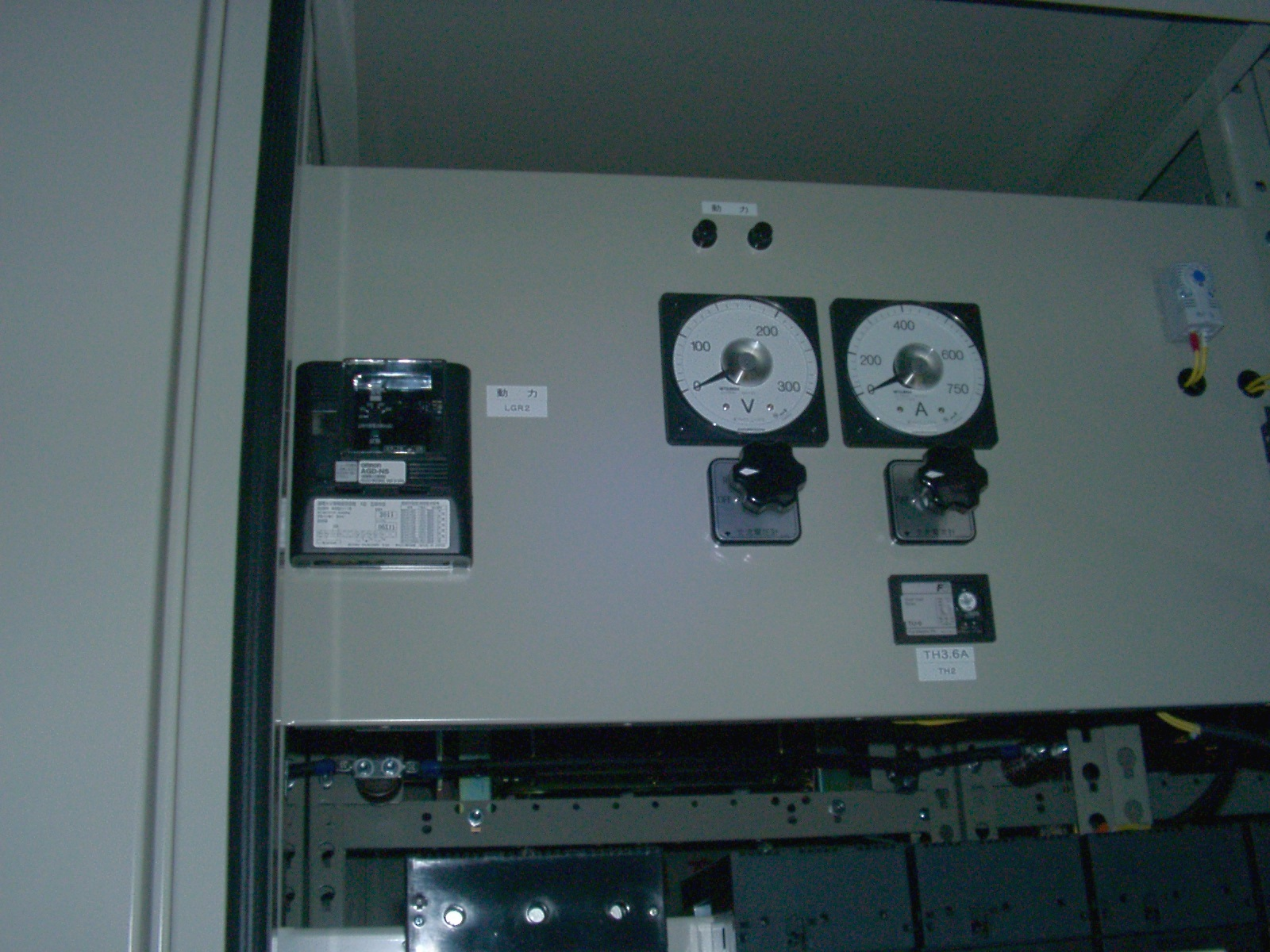 Electric leak fire alarm in cubicle type high voltage power receiving units.